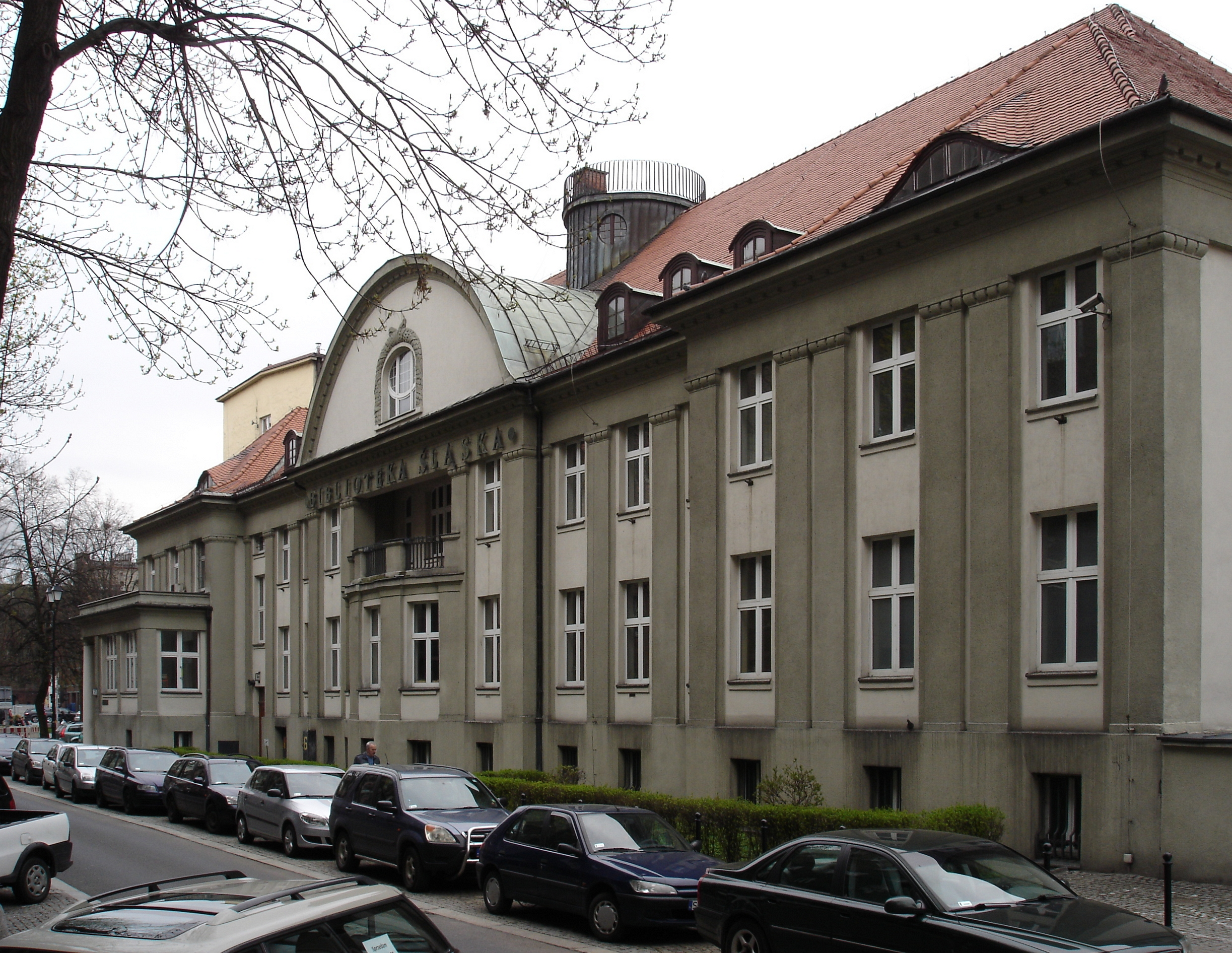 The building of Silesian Library at the Ligonia 7 street, Katowice, Poland.